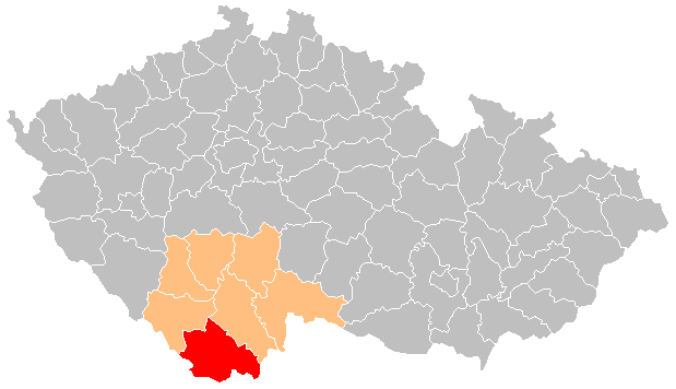 District of Český Krumlov